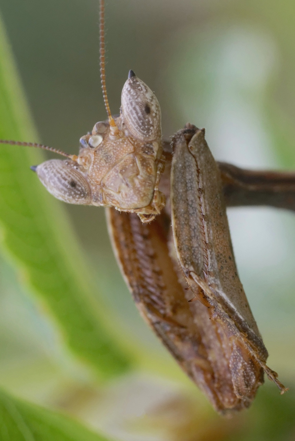 View from above on a male Dead Leaf Mantis, probably Acanthops fuscifolia